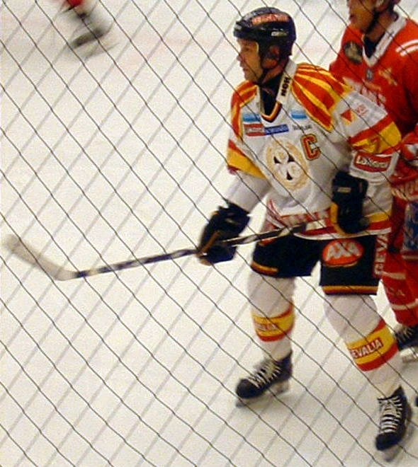 Ice hockey player Tommy Sjödin of Brynäs IF in E.ON Arena, Timrå, Sweden during the Swedish Elite League game Timrå IK-Brynäs IF 2-3.